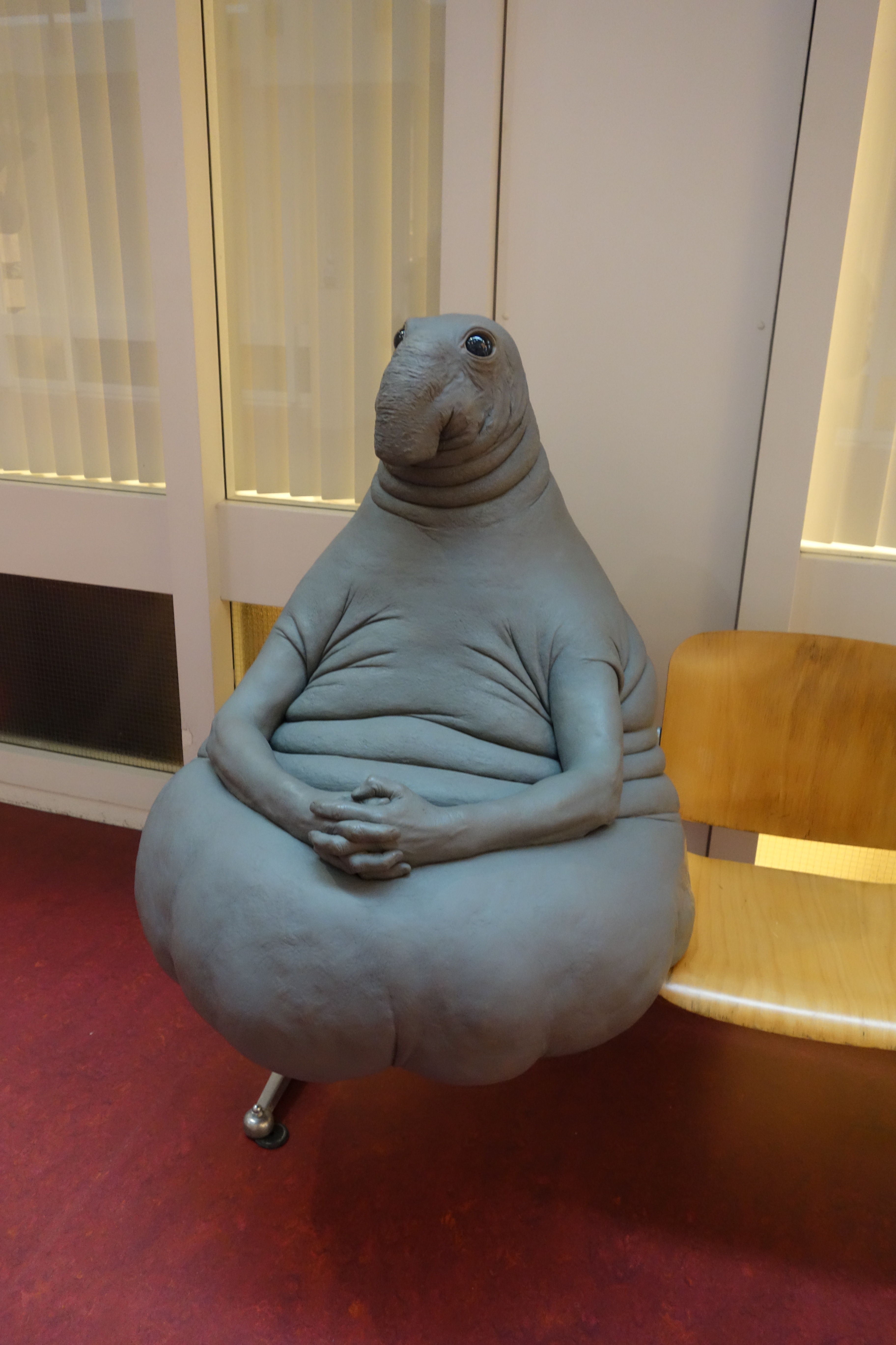 Homonculus Loxodontus in Leiden University Medical Centre, 2017